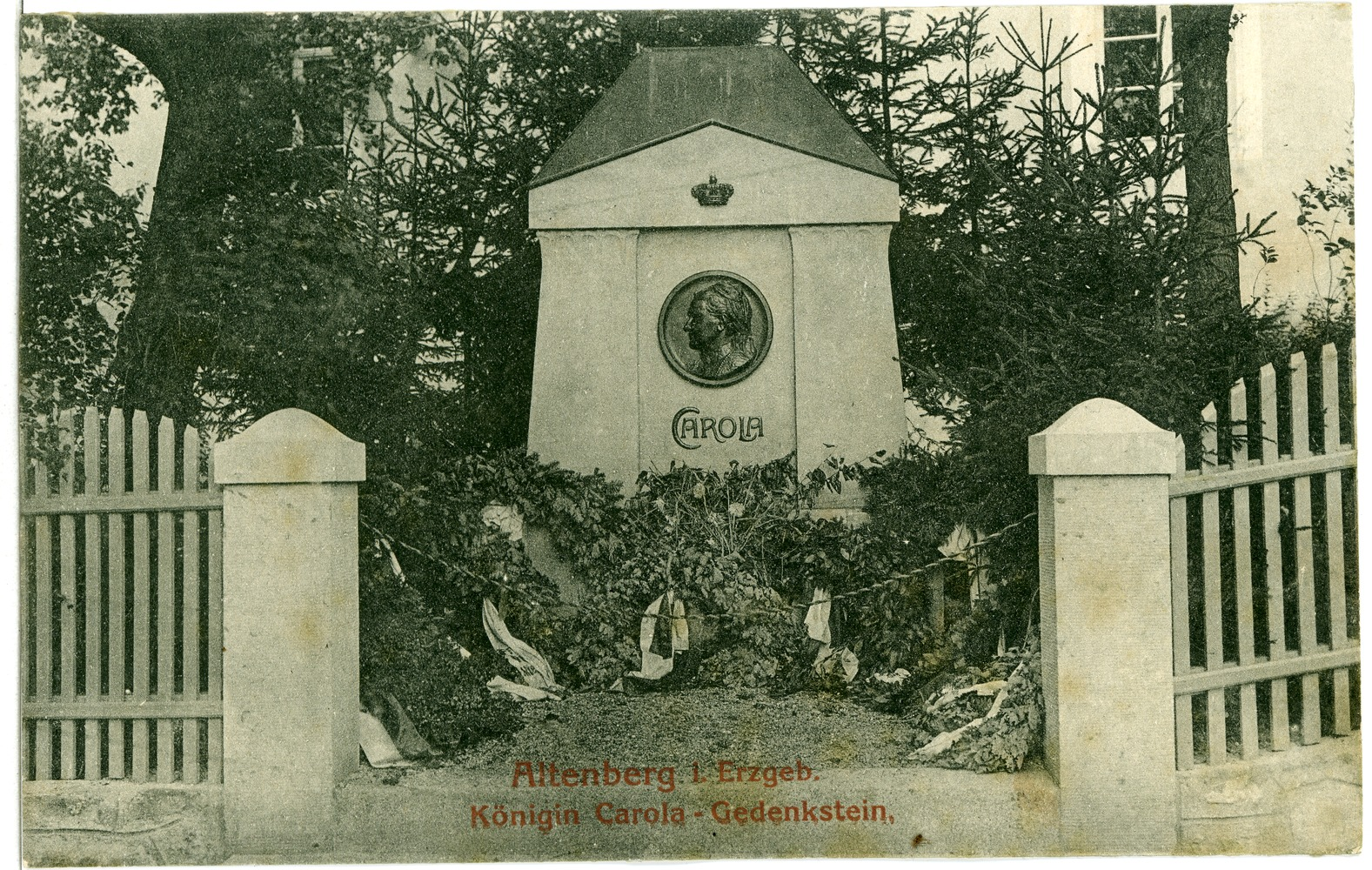 This postcard is from publisher Brück & Sohn in Meißen ( This postcard has a unique number 10539 and is available in a higher resolution at the publisher. This images was uploaded in a cooperation project between Wikipedians and the publisher.